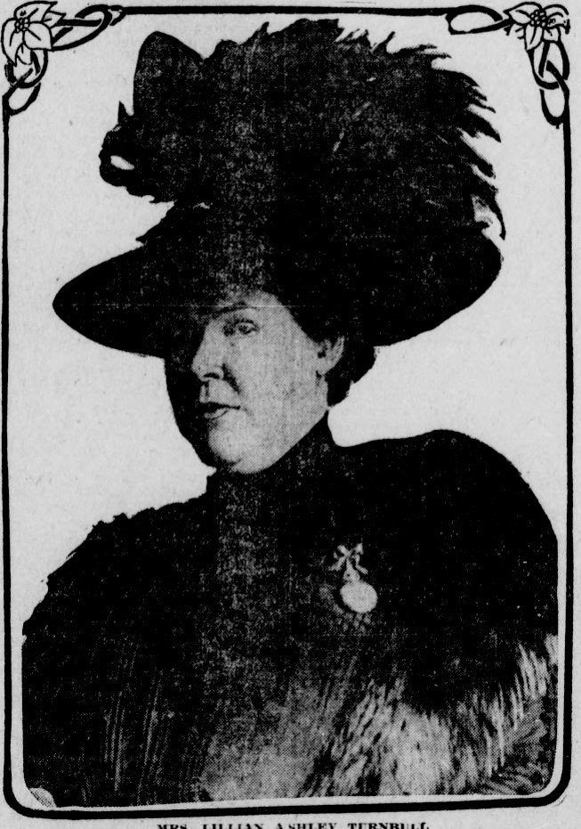 Lillian Ashley Turnbull, who testified in 1910 that she had signed a contract supposedly marrying her with Lucky Baldwin.